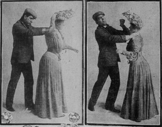 hatpin defence